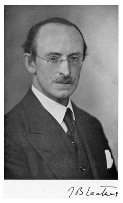 Photograph of John Beresford Leathes (1864-1956)